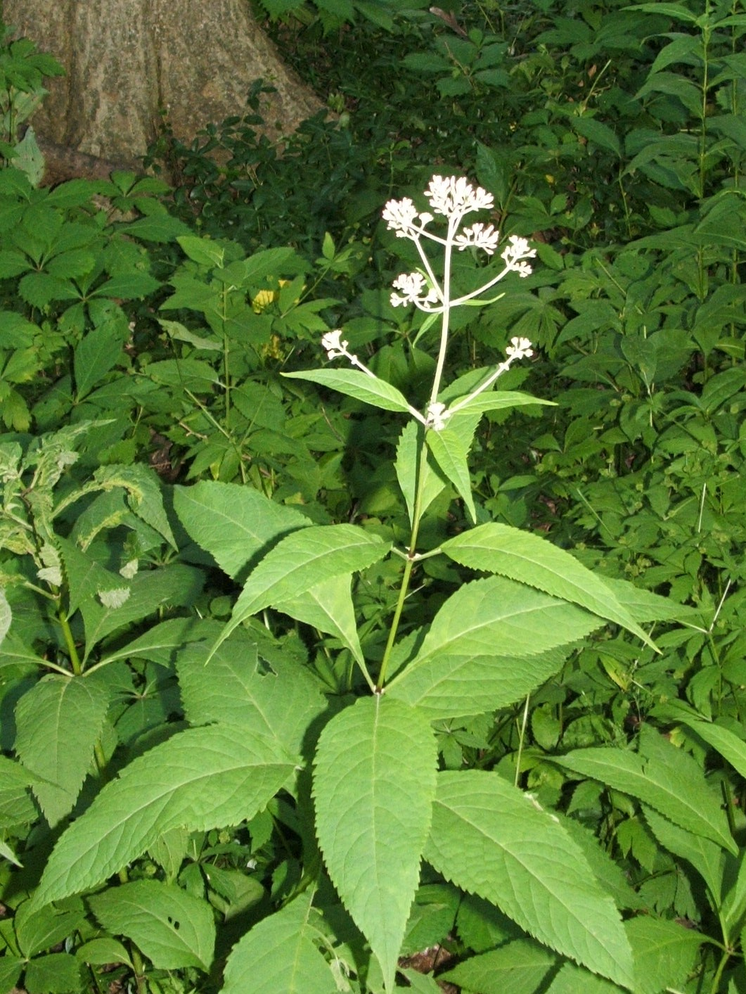 Joe-Pye Weed (Eutrochium fistulosum) with 3-fold Rotational symmetry in its leaf and flower whorls.